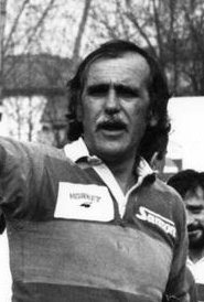 The Italian rugby union player Isidoro Quaglio (born 1942 - dead 2008)